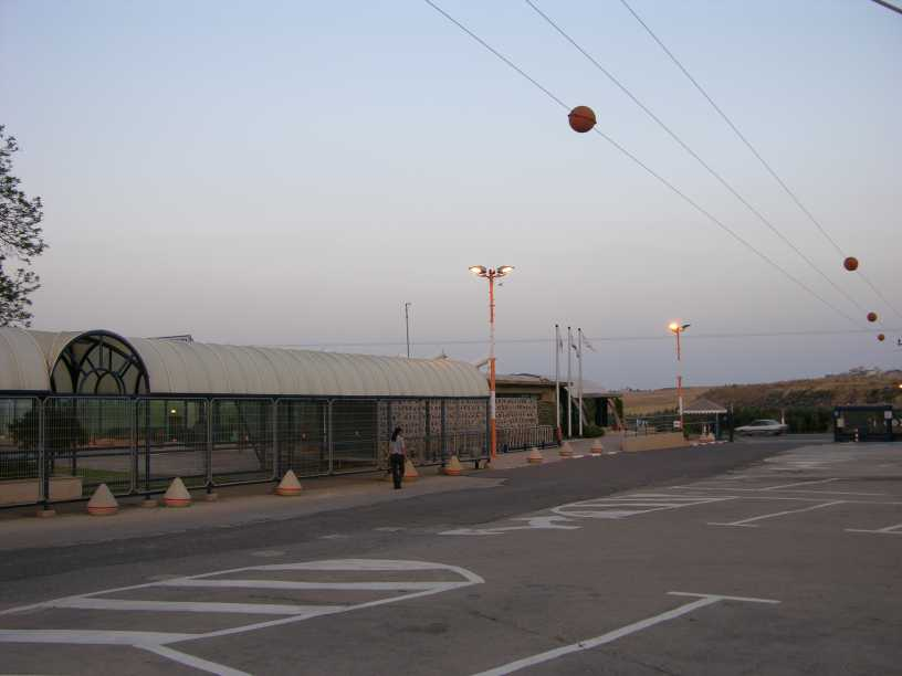 Airport of Ben Ya'akov, 3 km north east of Rosh Pina